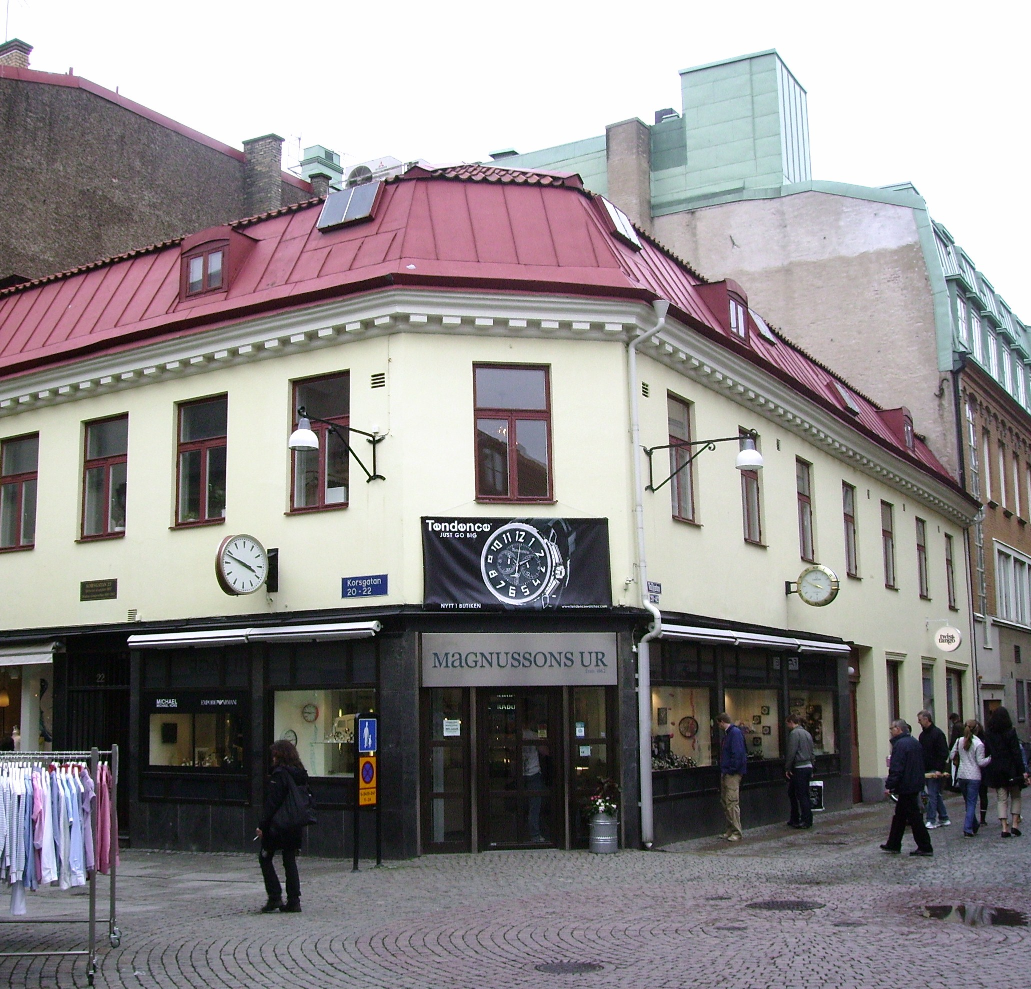 Picture of Domprosthuset in Göteborg